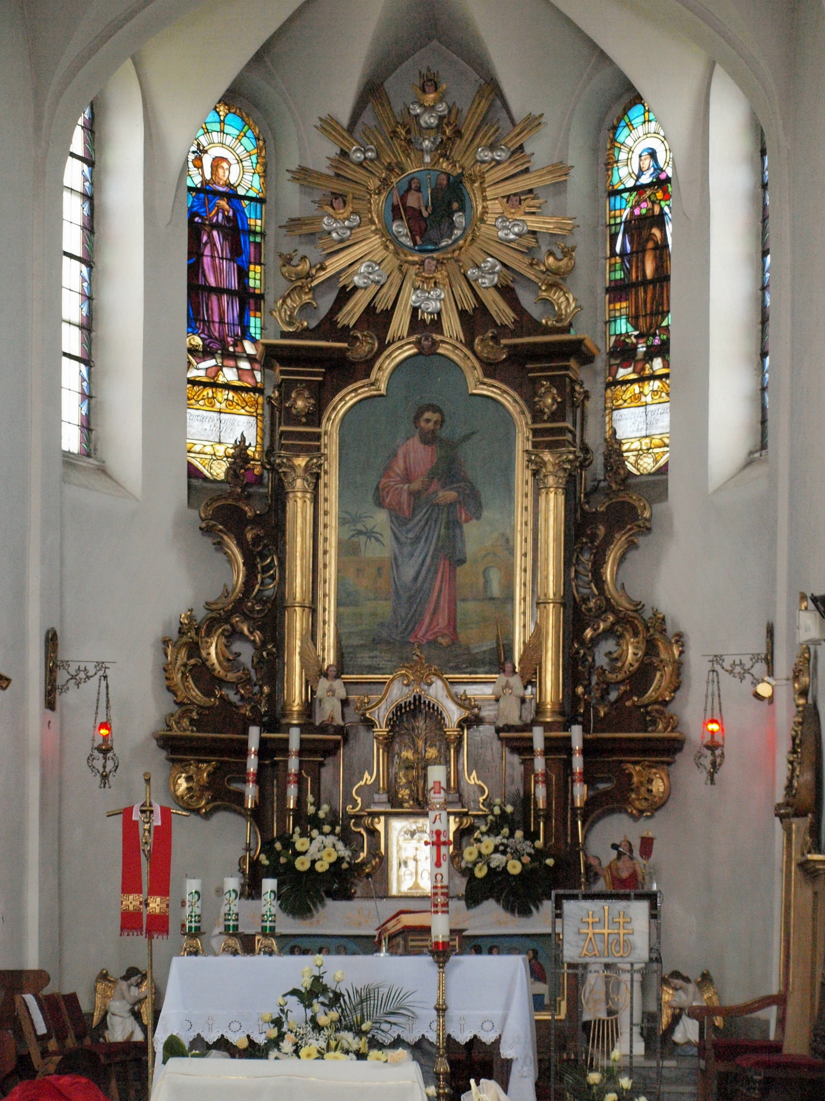 Samocice, parish church of St. Bartholomew main altar